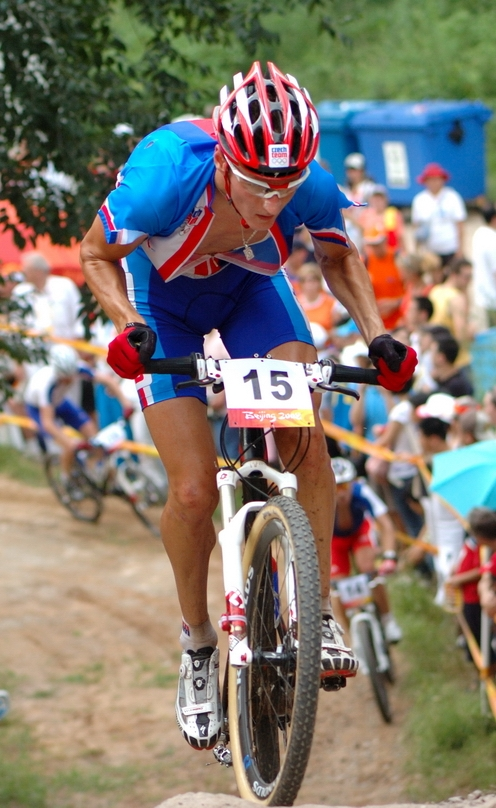 Cycling at the 2008 Summer Olympics – Men's cross-country - Jaroslav Kulhavy (Czech Republic)